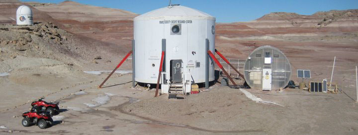 Picture of MDRS Hab, observatory and greenhab